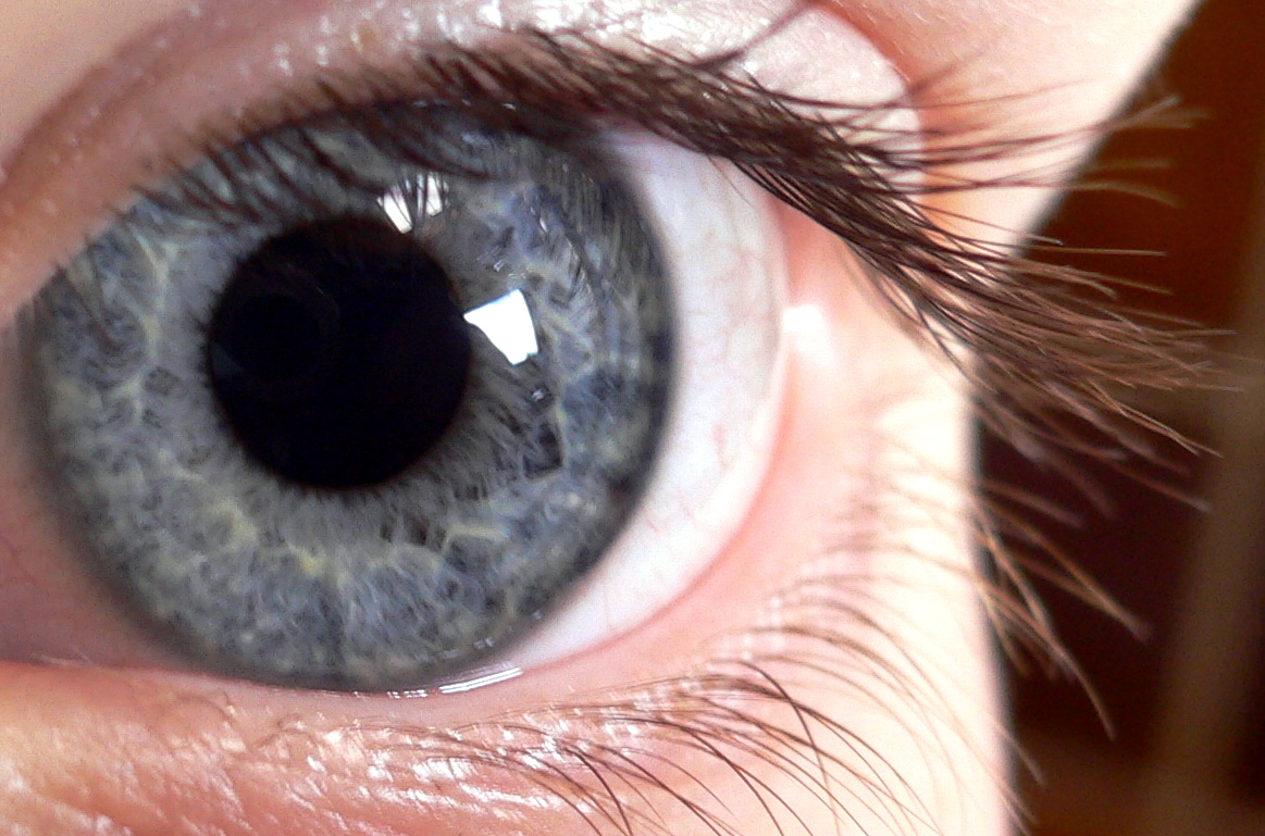 A blue (in fact grey-cyan) human eye